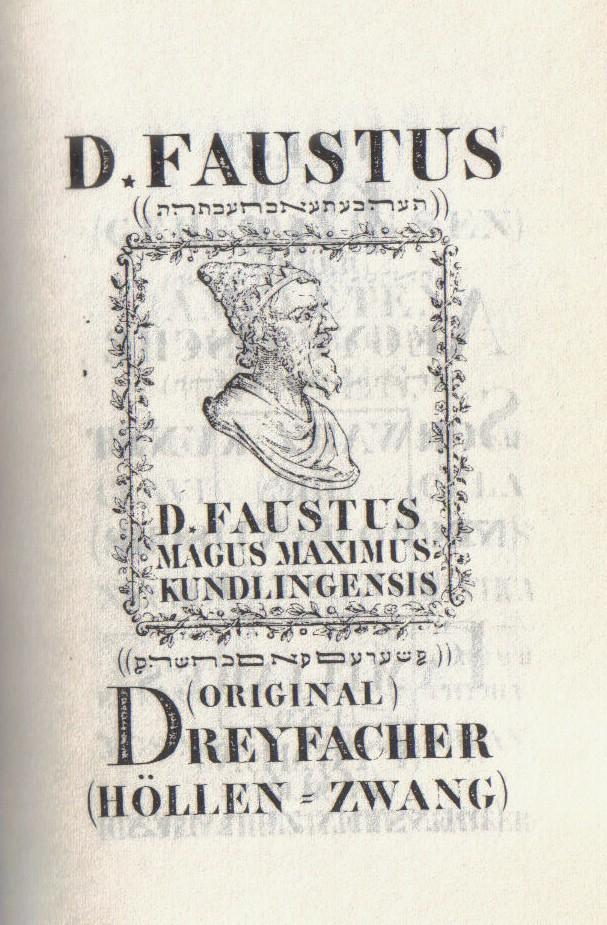 Title page of one of the Dreyfacher Höllenzwang grimoires attributed to "Doctor Faust".[1]